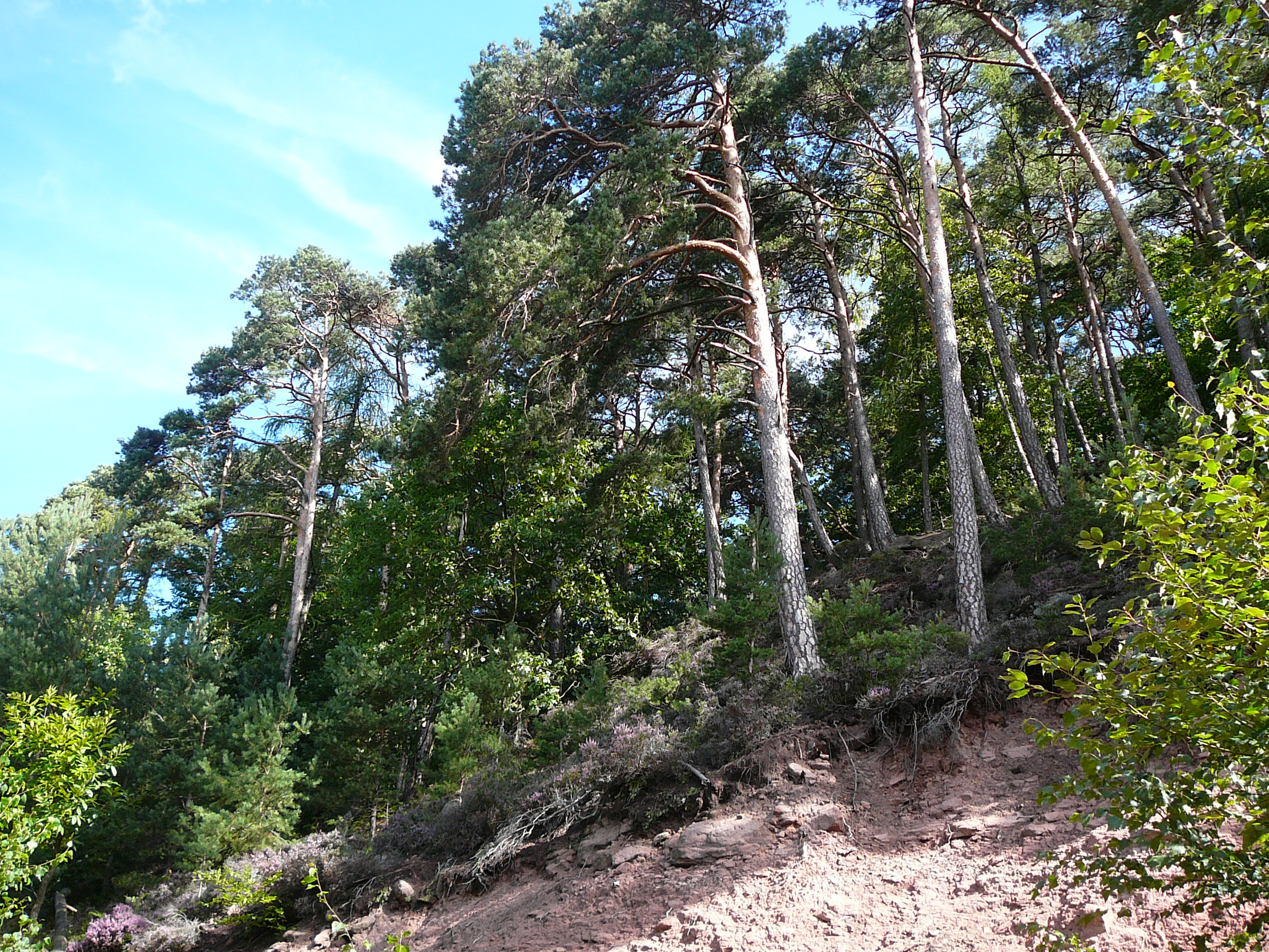 Pinus sylvestris 200 years old, Rehbergs, Rhineland-Palatinate